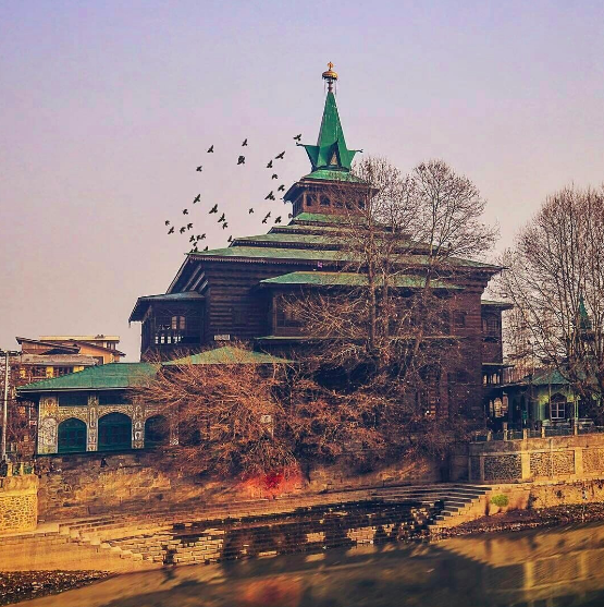 The sacred Hindu saffron color mark paster pasted on outer wall of Khanqah-e-Moula symbolising it as location of the ancient c